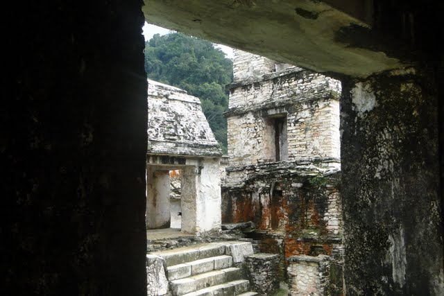 Palenque